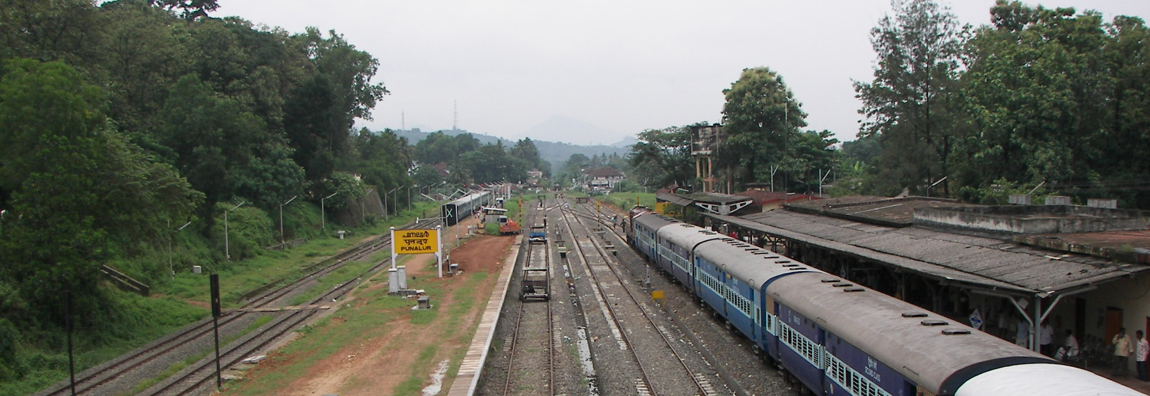 Punalur view from Railway Station